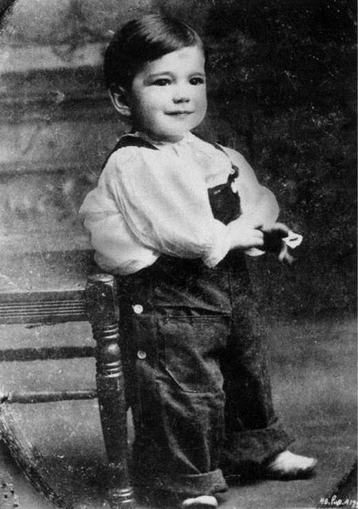 Photo of Humphrey Bogart, when he was a baby (1900)